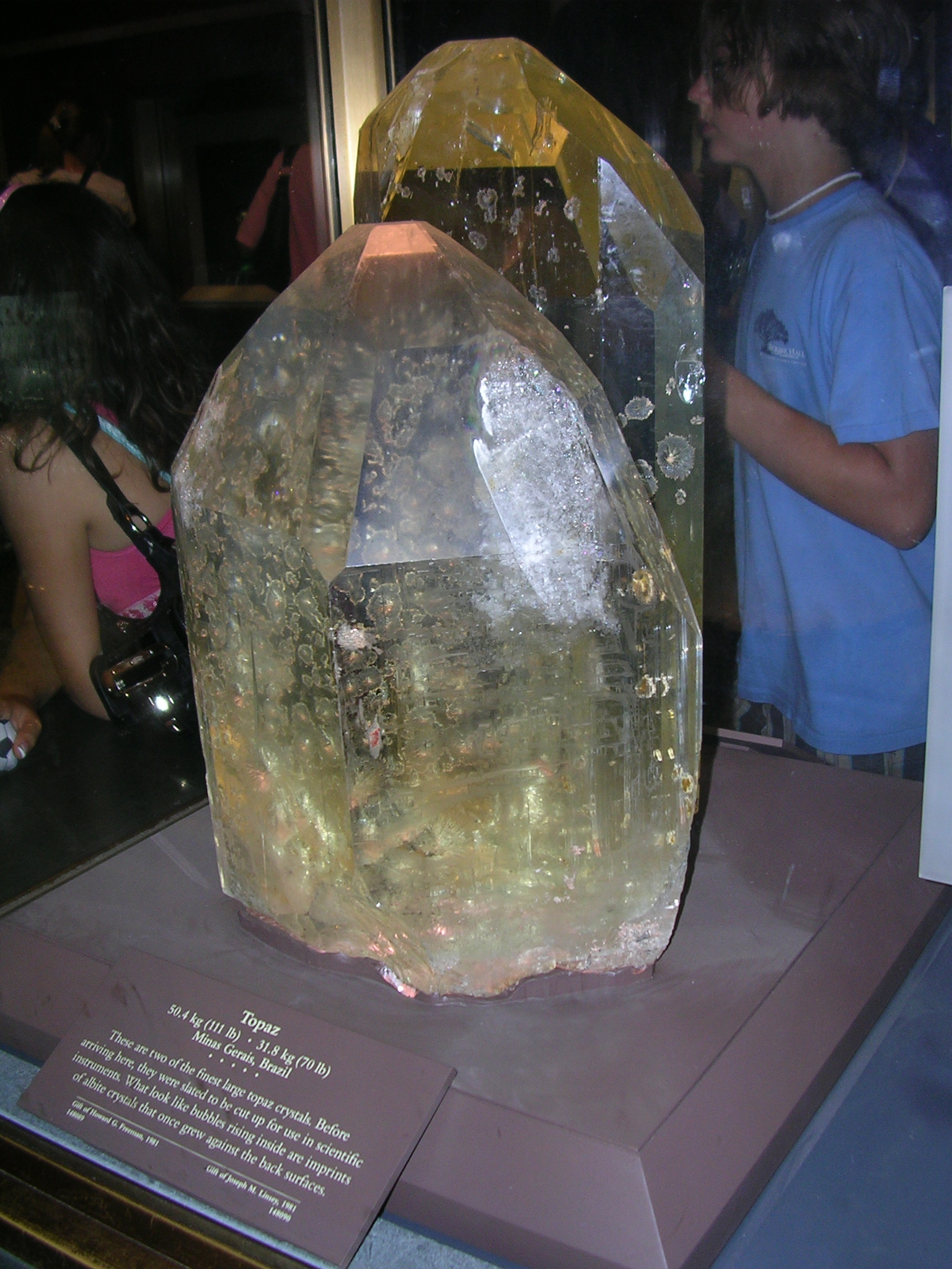 Topaz - Exposed in the National Museum of Natural History (look also on the website of the National Museum of Natural History, Smithsonian Institution) Original text on the sign: Topaz - 50,4 kg (111 lb) and 31,8 kg (70 lb) - Minas Gerais, Brazil These are two of the finest larg topaz crystals. Before arriving here, they where slated to be cut up for use in scientific instruments. What look like bubbles rising inside are imprints of albite crystals that once grew against the back surfaces. Gift of Howard G. Freeman and Joseph M. Linsey, 1981 Catalog Number: 148089, 148090